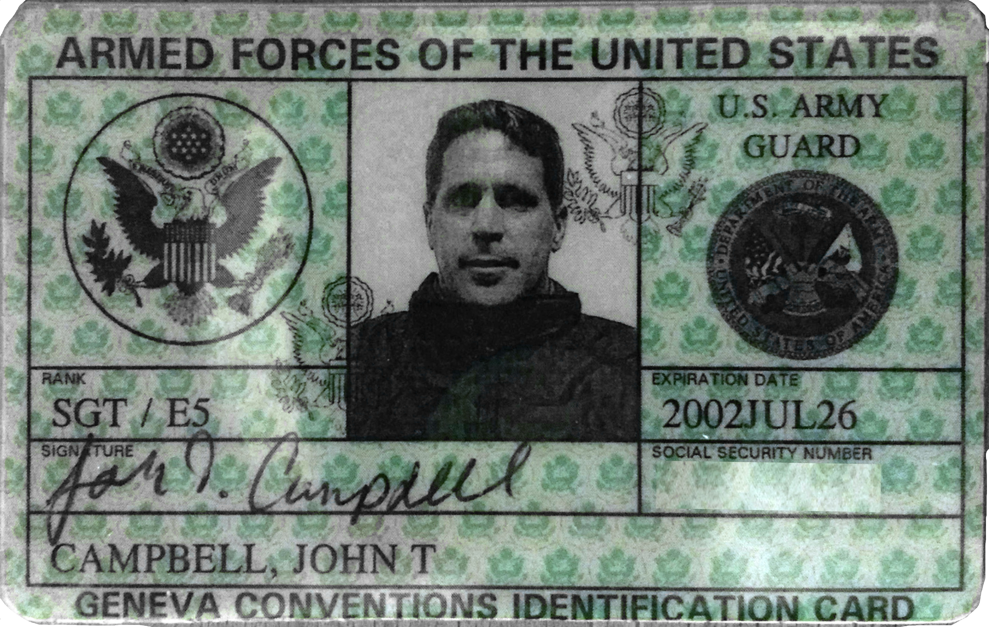 A U.S. Army Guard Geneva Conventions Identification Card from 2001. The Social Security Number has been removed from this image.